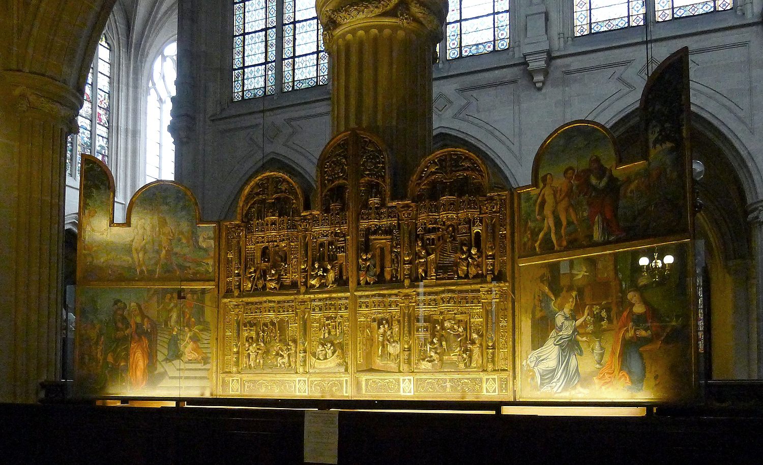 Saint-Germain l'Auxerrois church - Paris